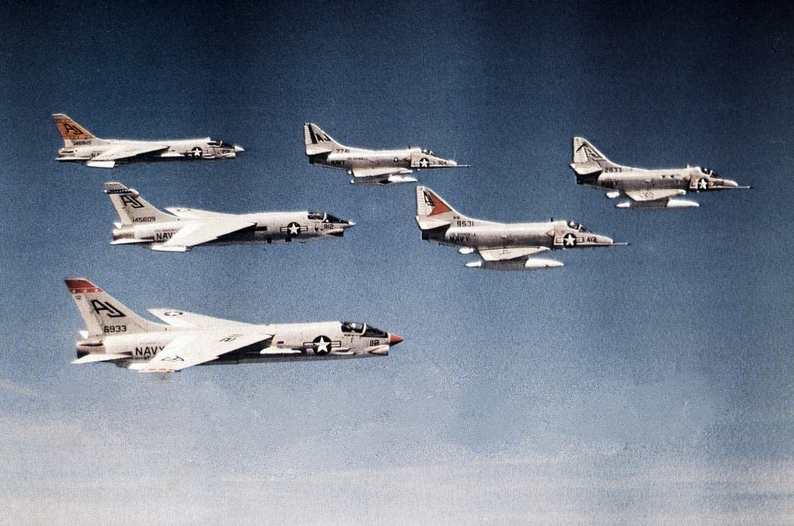 Aircraft of the U.S. Navy Carrier Air Wing 8 (CVW-8) in flight. CVW-8 was assigned the aircraft carrier USS Shangri-La (CVA-38) for a deployment to the Mediterranean Sea from 15 November 1967 to 4 August 1968. Visible are (r-l): a Douglas A-4B Skyhawk from Attack Squadron VA-95 Green Lizards (AJ-5XX); an A-4C from VA-81 Sunliners (AJ-412); an A-4C from VA-83 Rampagers (AJ-304); a Vought F-8C Crusader from Fighter Squadron VF-13 Night Cappers (AJ-112); a RF-8G from Photographic Reconnaissance Squadron VFP-63 Det.38 Eyes of the Fleet (AJ-912); and a F-8C from VF-62 Boomerangs (AJ-201).